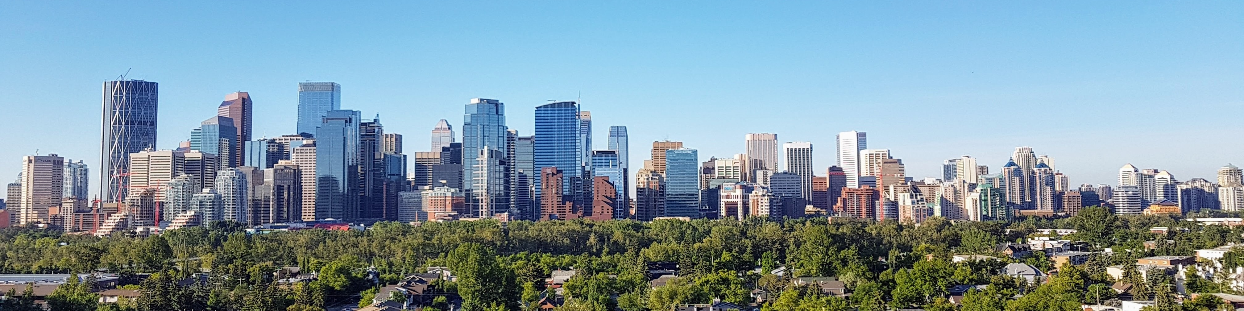 Calgary skyline